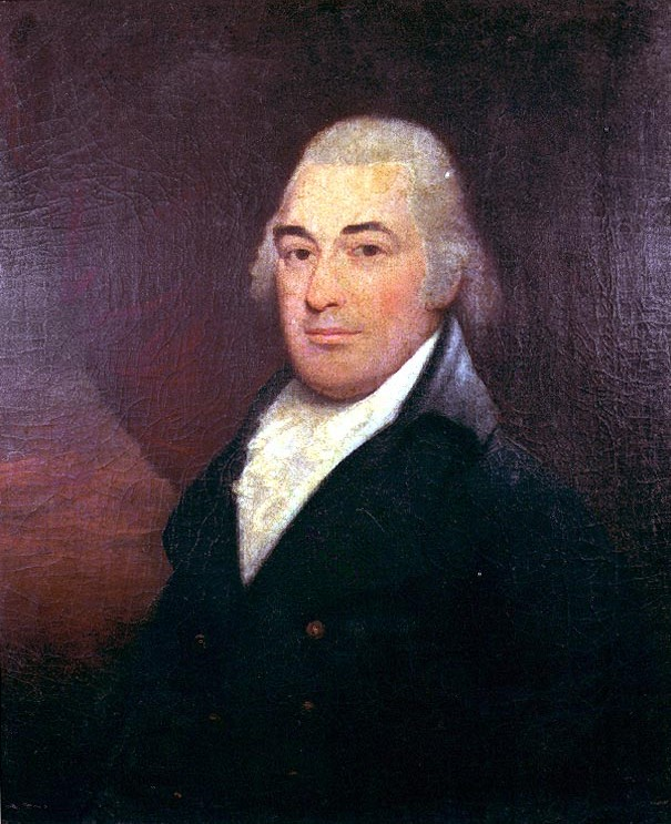 William Jones, Secretary of the Navy, 19 January 1813 - 1 December 1814